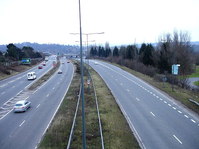 A229 Chatham Road